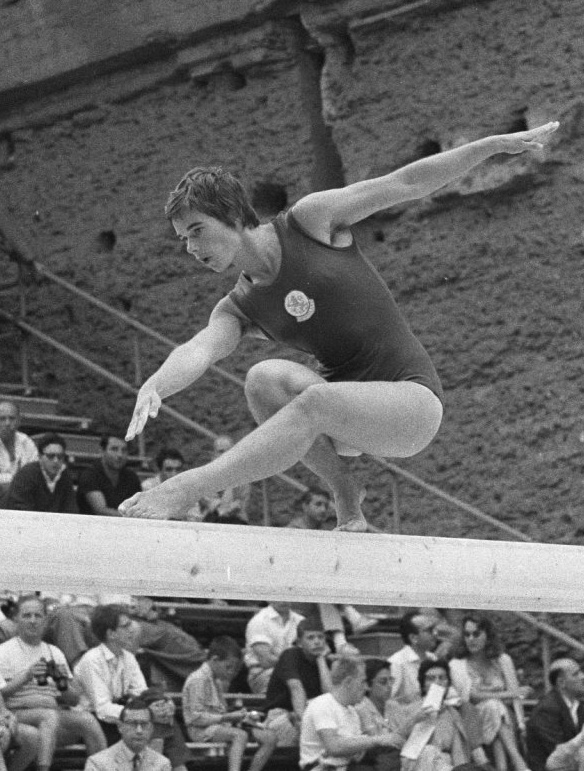 Bep Ipenburg